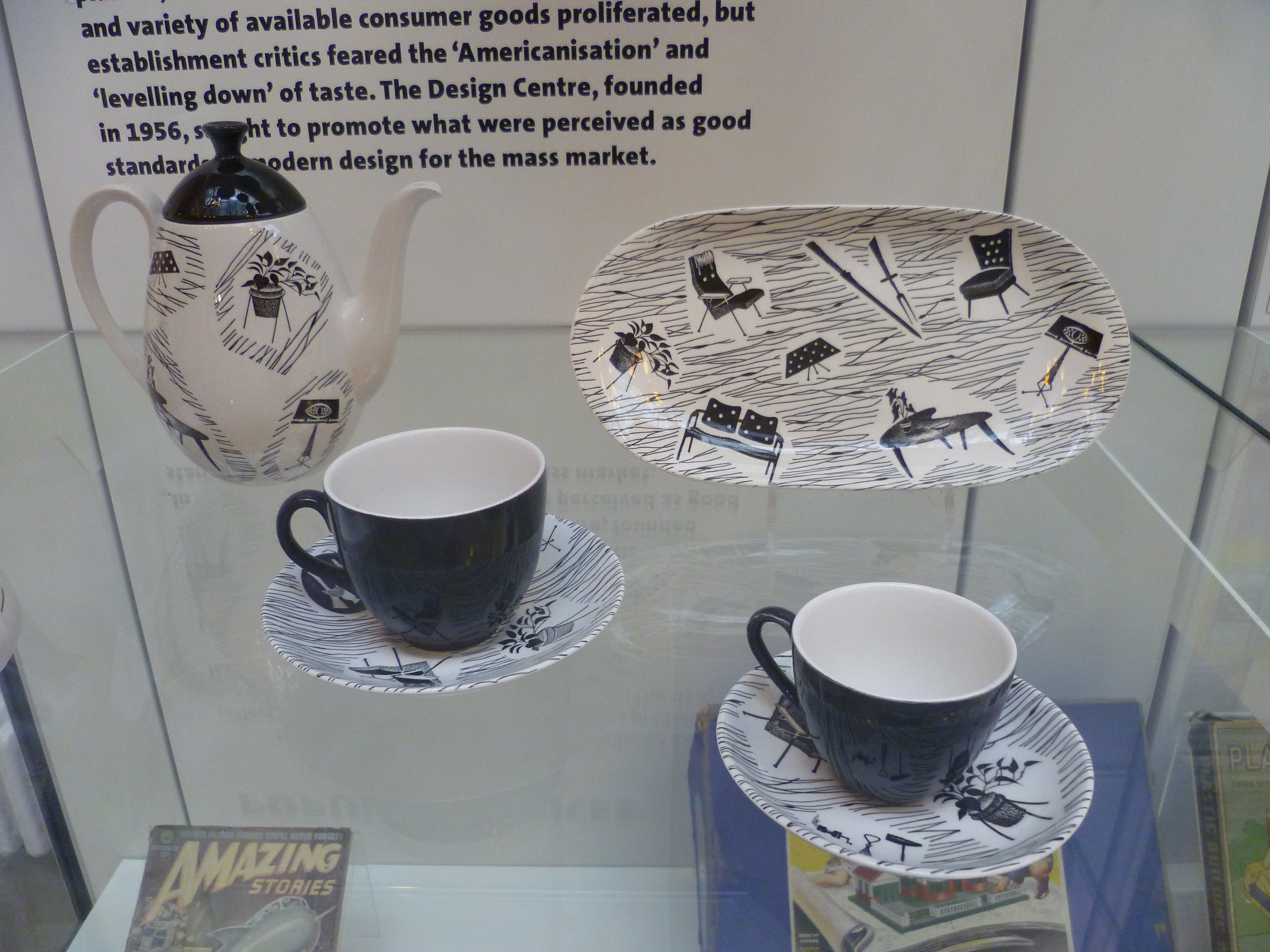 Homemaker